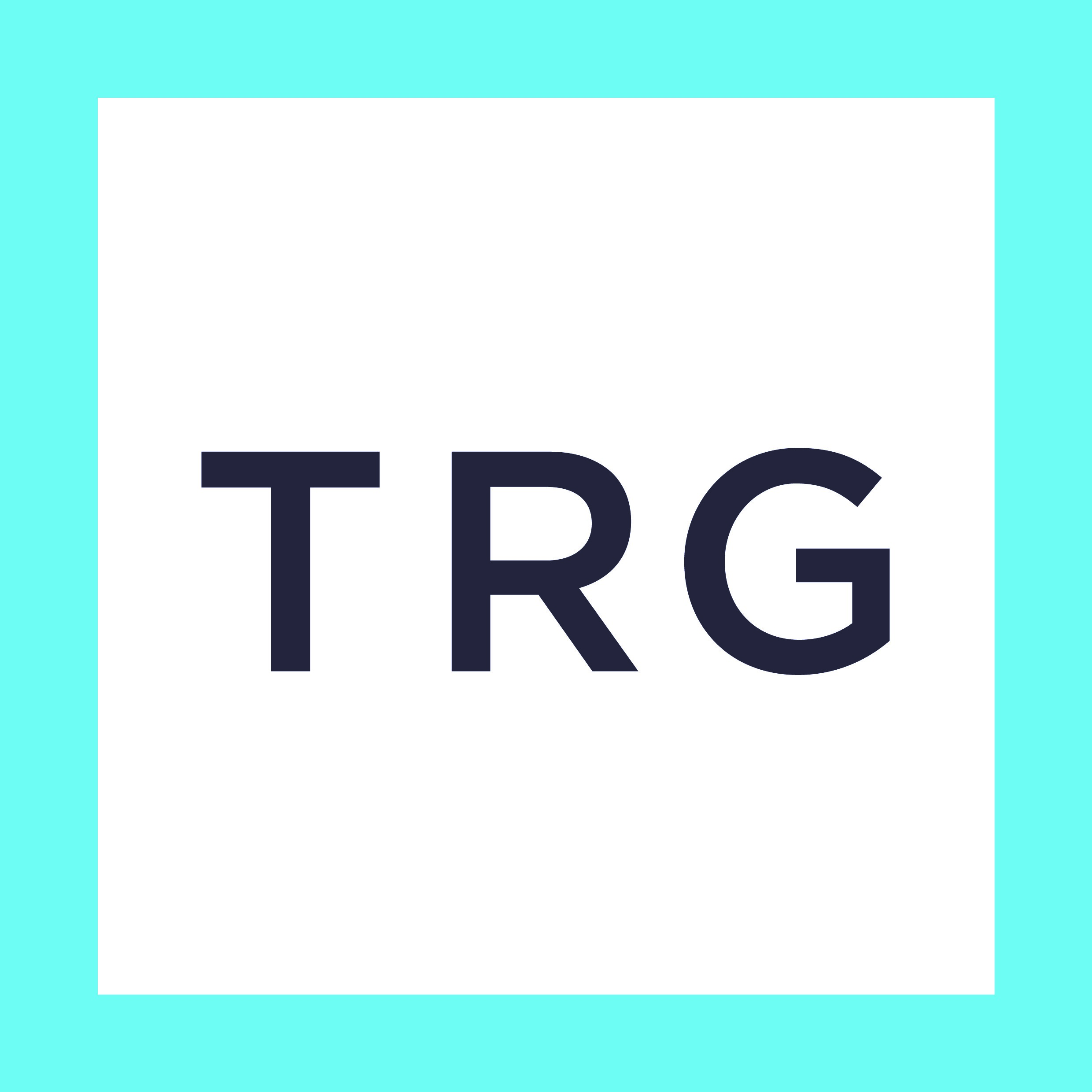 TRG logo, new branding introduced in 2015